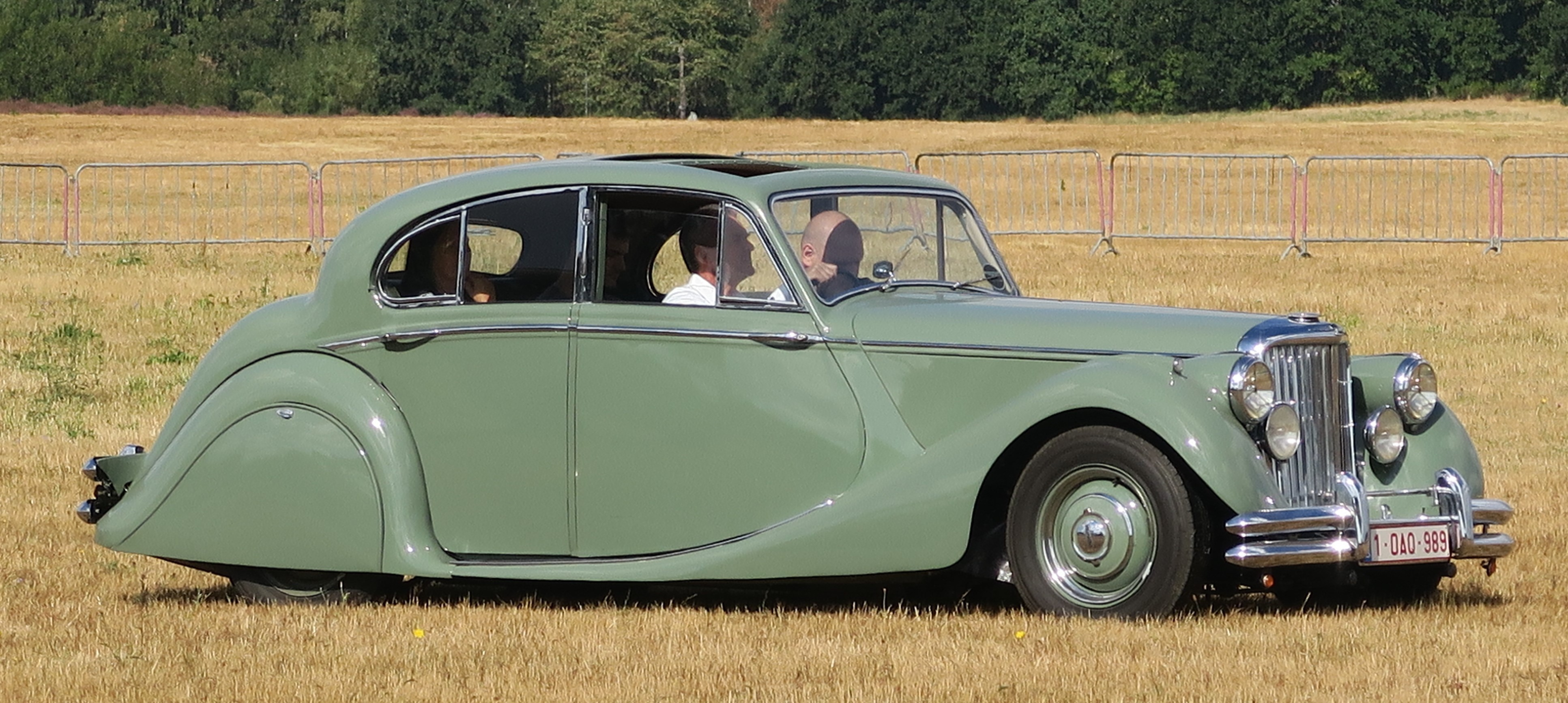 Jaguar Mark V (1949) at Schaffen-Diest (2018)